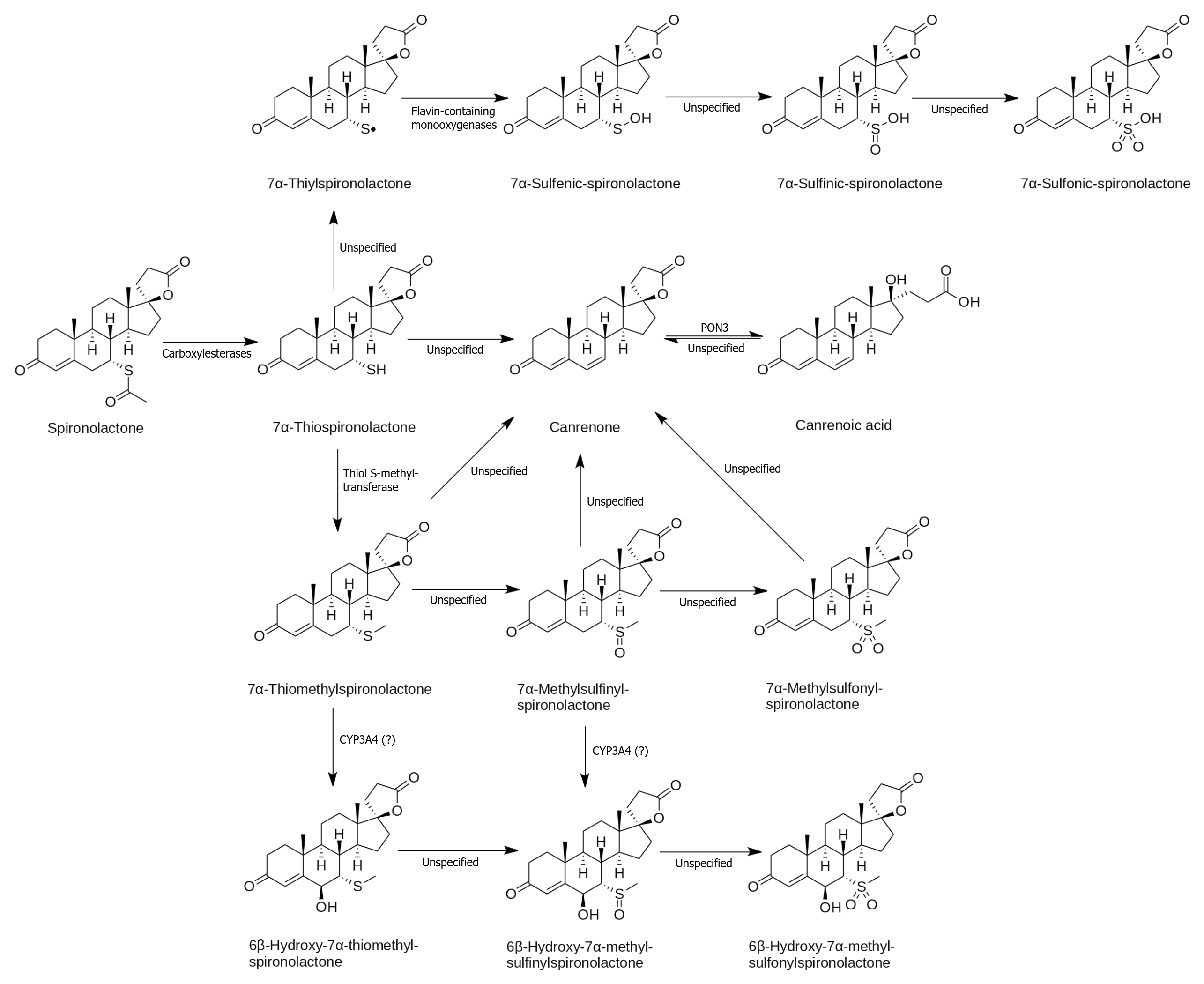 Metabolic pathways of spironolactone in humans. Sources of the information: (February 1992). "High-performance liquid chromatographic determination of spironolactone and its metabolites in human biological fluids after solid-phase extraction". J. Chromatogr. 574 (1): 57–64. PMID 1629288. (1989). "Canrenone formation via general-base-catalyzed elimination of 7 alpha-(methylthio)spironolactone S-oxide". Chem. Res. Toxicol. 2 (2): 109–13. PMID 2519709. December 2012 Diuretics, Springer Science & Business Media, pp. 194– ISBN: 978-3-642-79565-7. Spironolactone[1], volume 29, 2002, ISSN 10756280, pages 261–320 (1976). "Pharmacokinetics of spironolactone in man". Naunyn-Schmiedeberg's Archives of Pharmacology 296 (1): 37–45. ISSN 0028-1298. (1987). "The metabolism and biopharmaceutics of spironolactone in man". Rev Drug Metab Drug Interact 5 (4): 273–302. PMID 3333882.